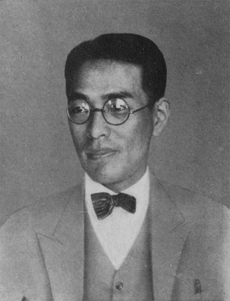 Jirō Arimitsu.